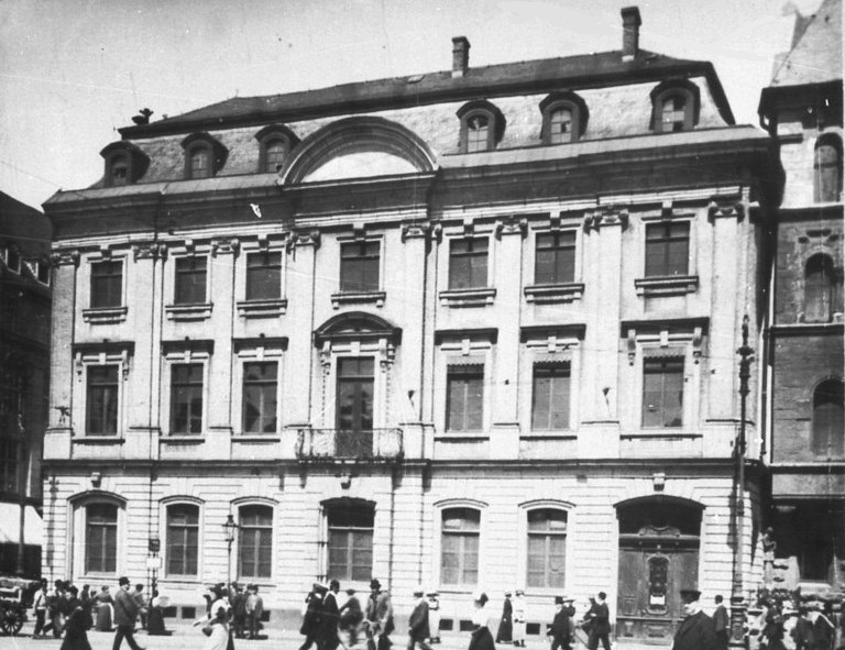 Neumarkt 2 - Blankenheimer Hof (um 1910)